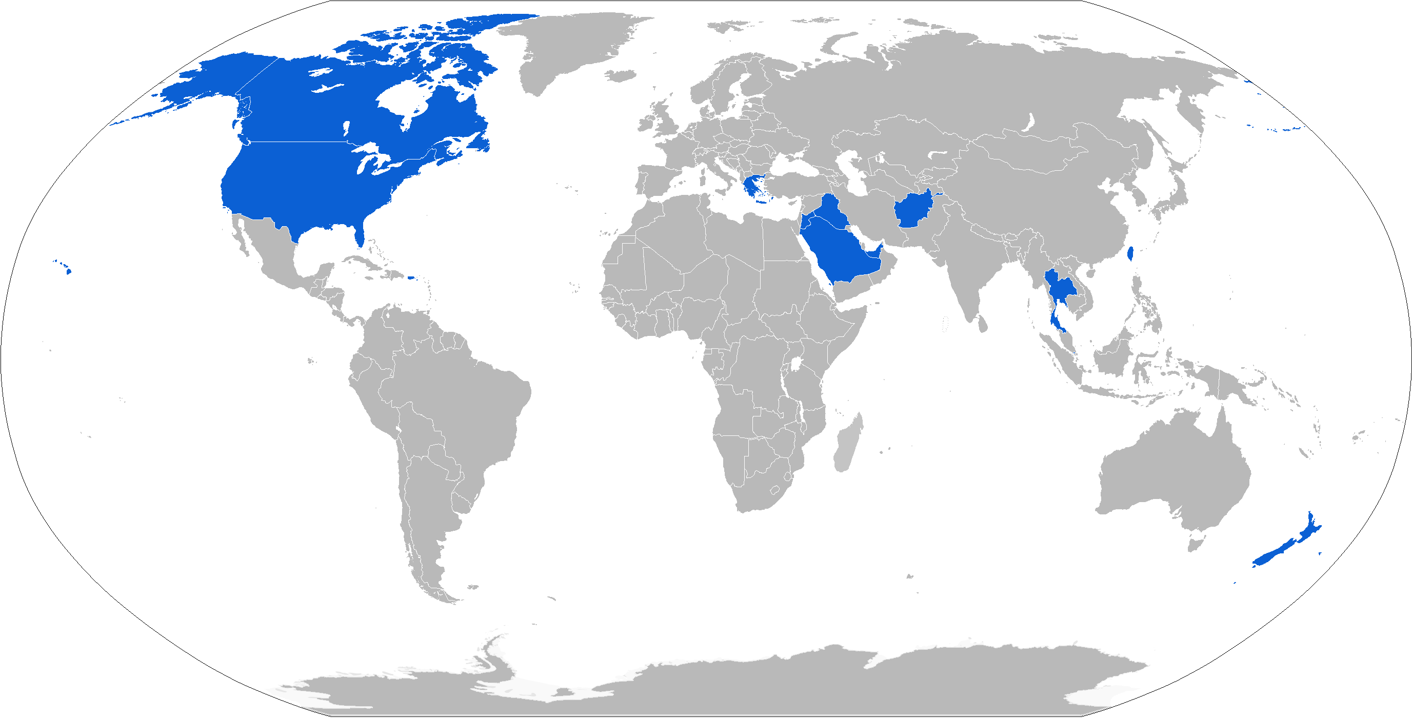 Map with FMTV operators in blue